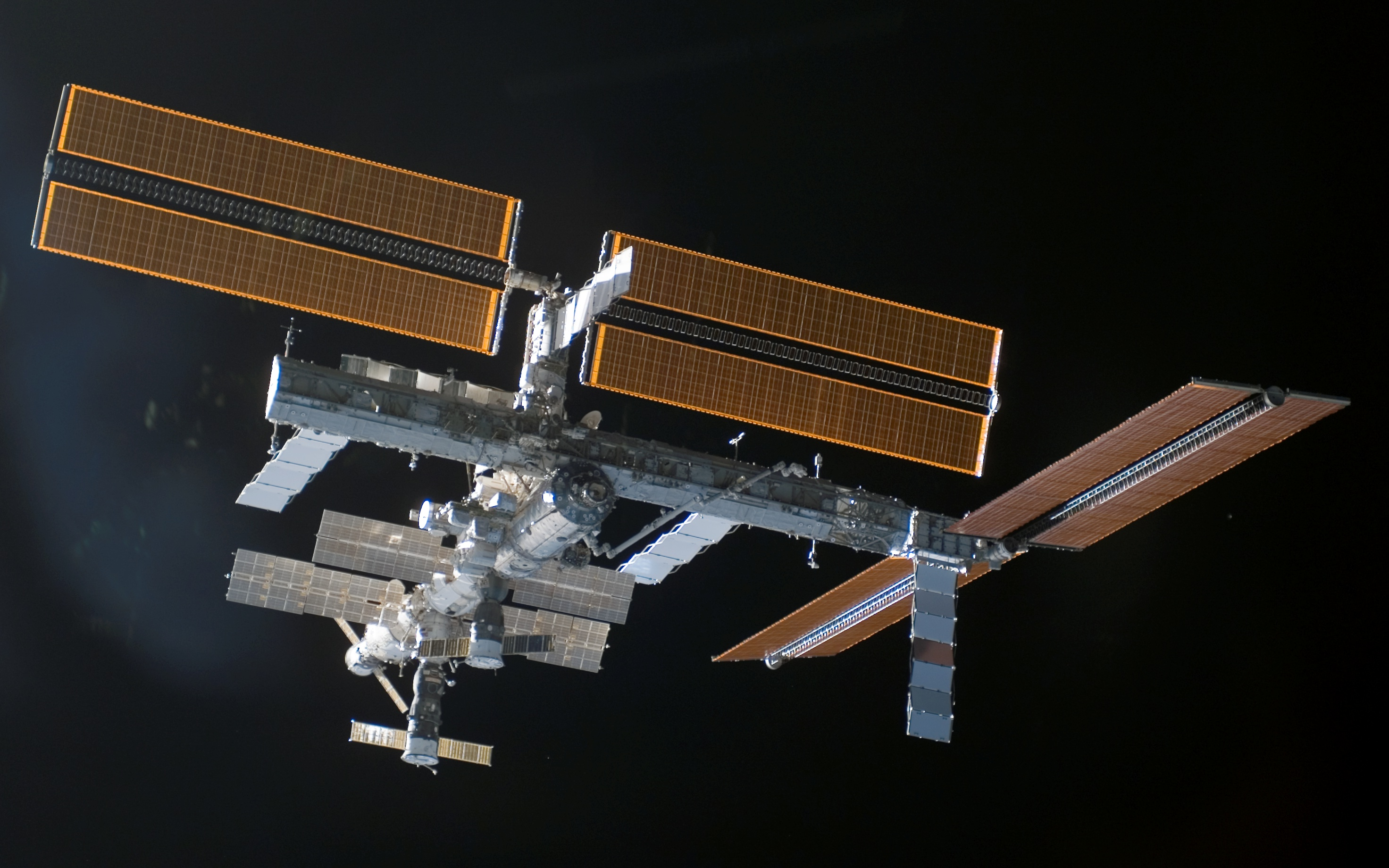 This view of the International Space Station, backdropped against the blackness of space, was taken shortly after the Space Shuttle Atlantis undocked from the orbital outpost at 7:50 a.m. CDT. The unlinking completed six days, two hours and two minutes of joint operations with the station crew. Atlantis left the station with a new, second pair of 240-foot solar wings, attached to a new 17.5-ton section of truss with batteries, electronics and a giant rotating joint. The new solar arrays eventually will double the station's onboard power when their electrical systems are brought online during the next shuttle flight, planned for launch in December.